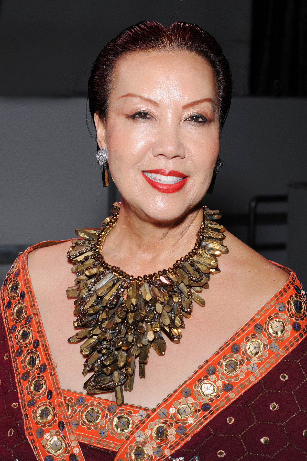 Sue Wong, Hollywood, California on April 30, 2014 - Photo by Glenn Francis of